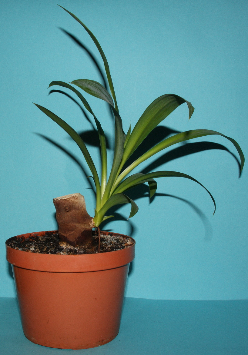 Yucca elephantipes (Giant Yucca / Spineless Yucca), stem cutting with sprout, c. 1 year after potting of the cutting